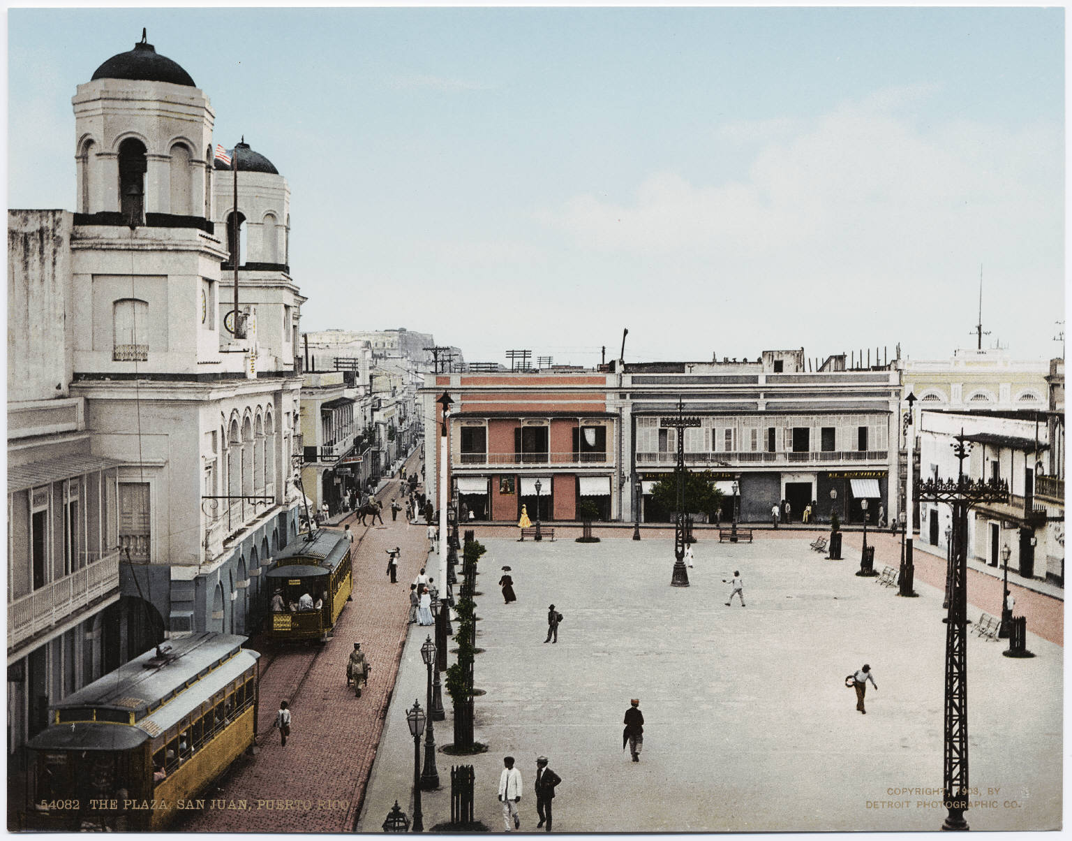 A photochrom postcard published by the Detroit Photographic Company.